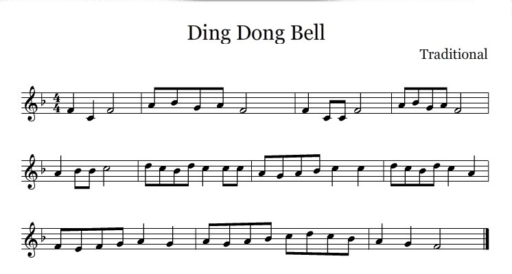 The basic melody to "Ding Dong Bell". See, for instance: [1]/[2].